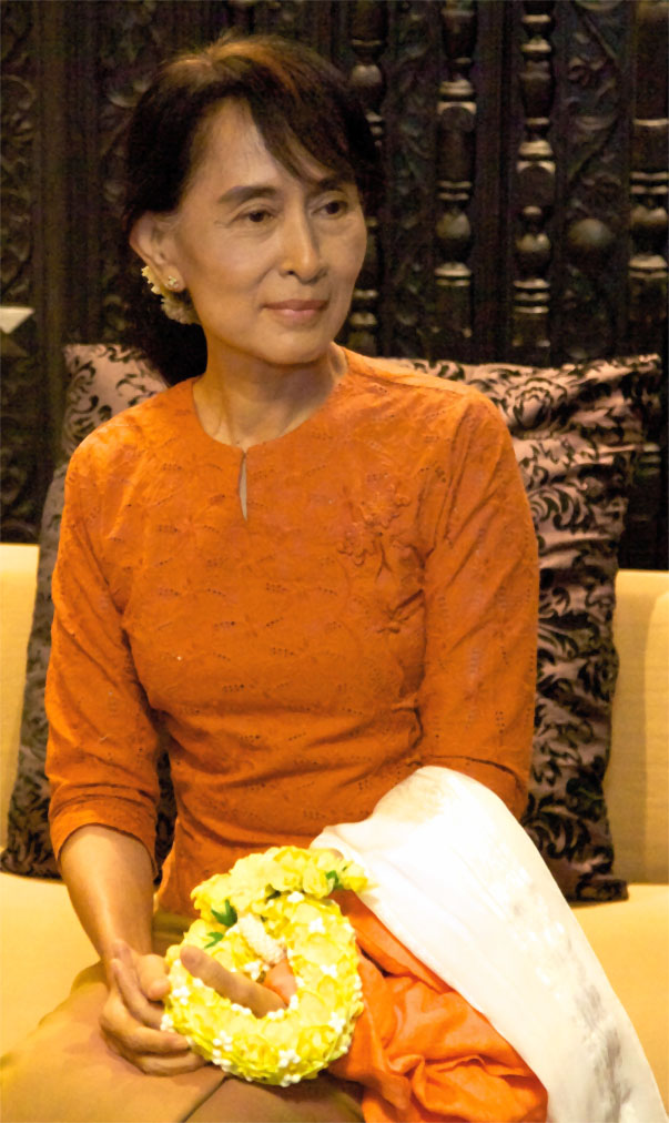 BANGKOK/THAILAND, 29MAY12 - Aung San Suu Kyi, Chairman of the National League for Democracy (NLD), Myanmar, captured during the World Economic Forum on East Asia in Bangkok, Thailand, May 29, 2012. Copyright World Economic Forum Photo by Sikarin Thanachaiary